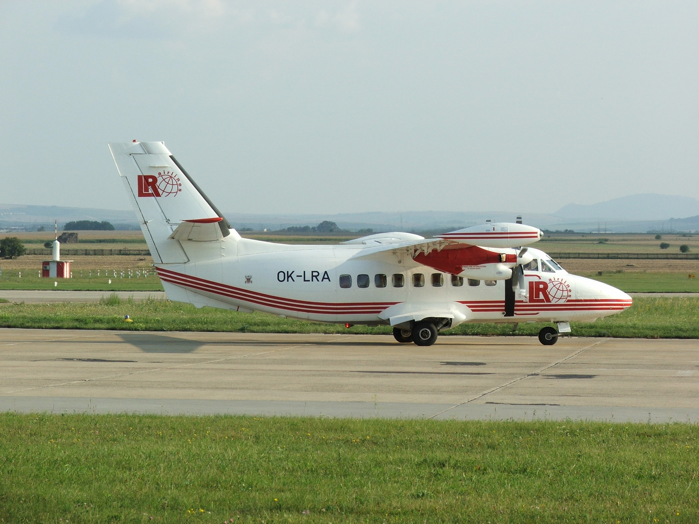 Let L-410 OK-LRA airplane at Brno airport, Czech Republic